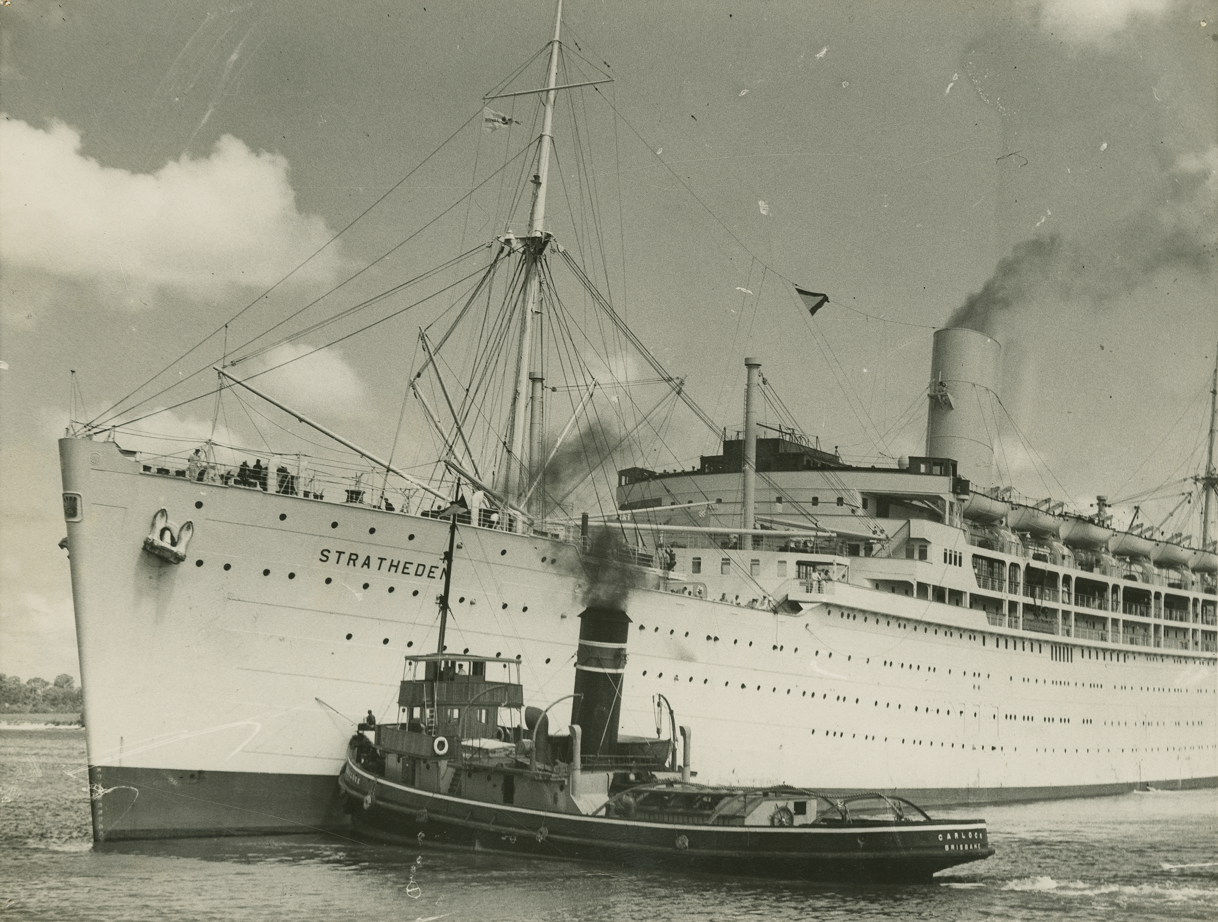 Passenger ship Stratheden being turned in the Brisbane River by the tugboat Carlock